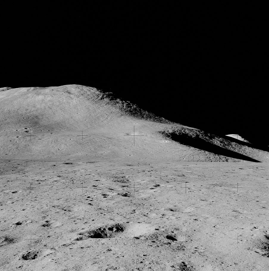 Photo of Mt. Hadley Delta and St. George crater taken by Dave Scott during stand-up EVA